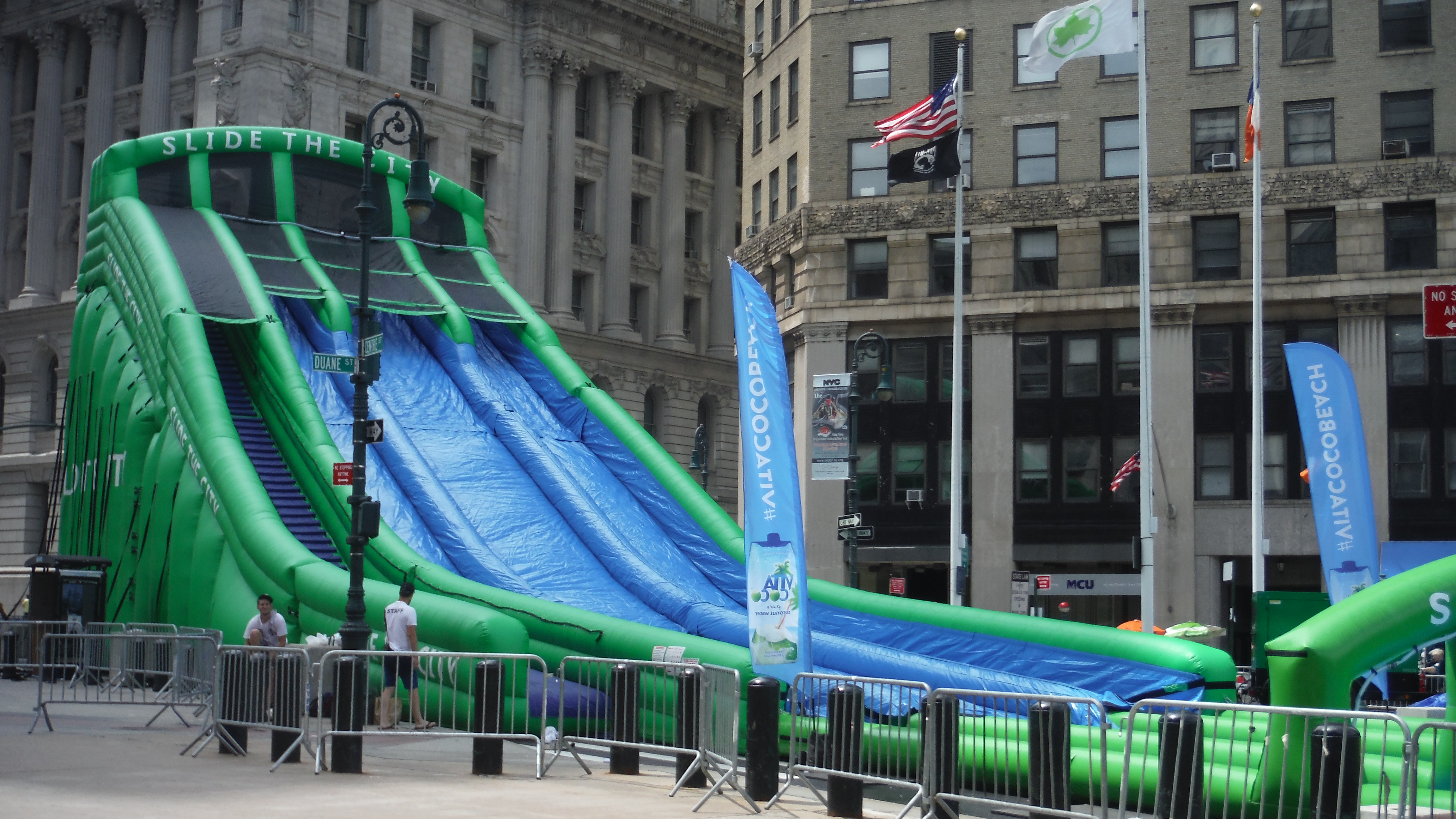 Slide the City water slide just before deflation, August 2015